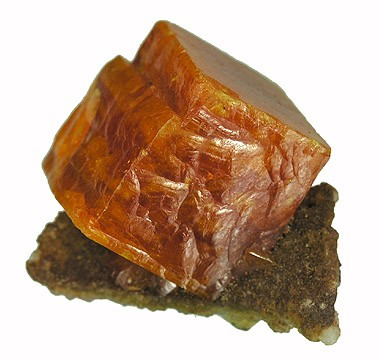 Wulfenite Locality: Erupción Mine (Ahumada Mine; Erupción-Ahumada Mine), Los Lamentos Mts (Sierra de Los Lamentos), Municipio de Ahumada, Chihuahua, Mexico (Locality at ) Size: 2.4 x 2.0 x 1.6 cm. Rich orange, blocky (pseudocubic) crystal of Wulfenite perched atop a thin slab of matrix.